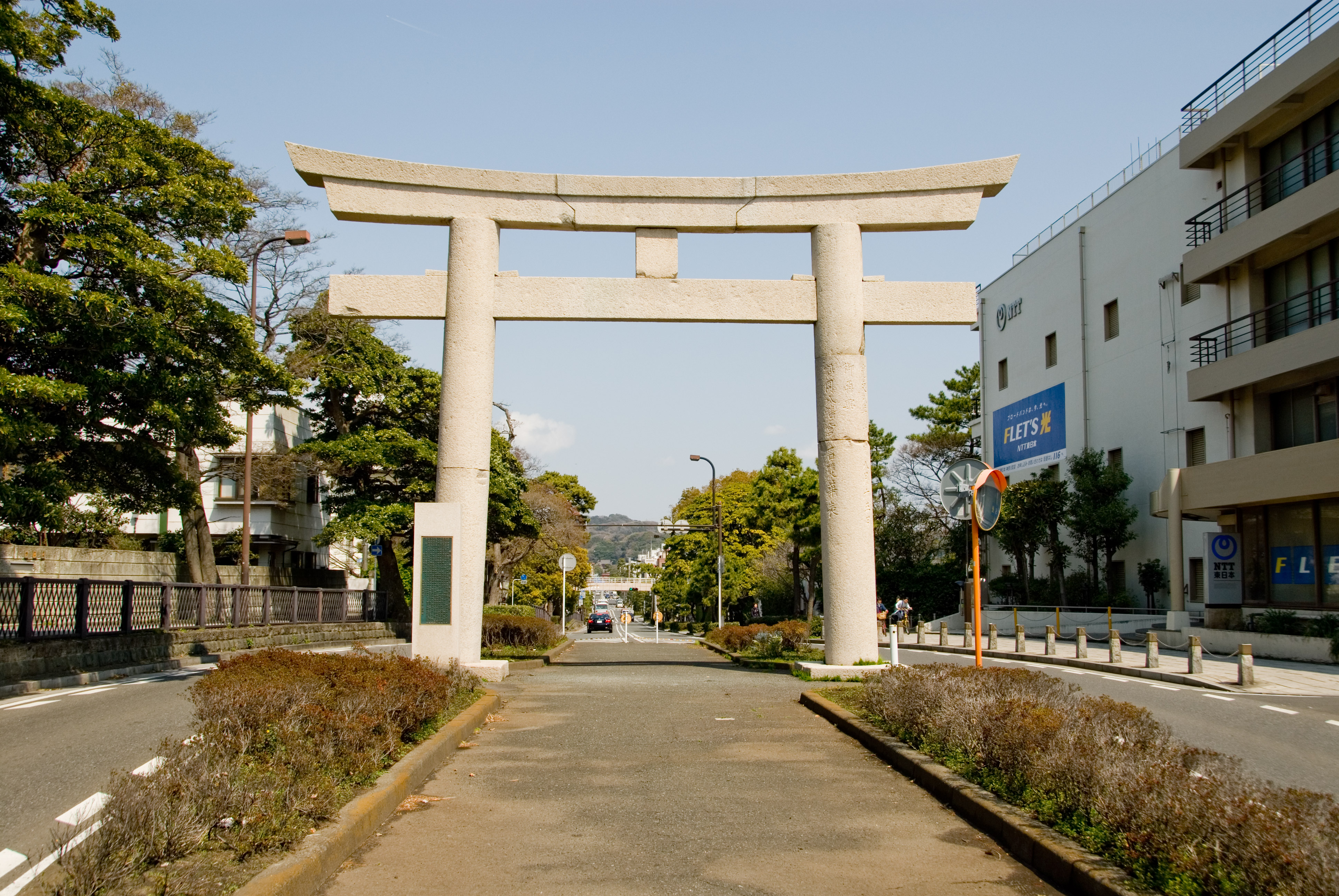 Tsurugaoka Hachimangu. Ichi no Torii. The right pillar was damaged in the Great Kanto Earthquake of 1922. It's broken in three parts.